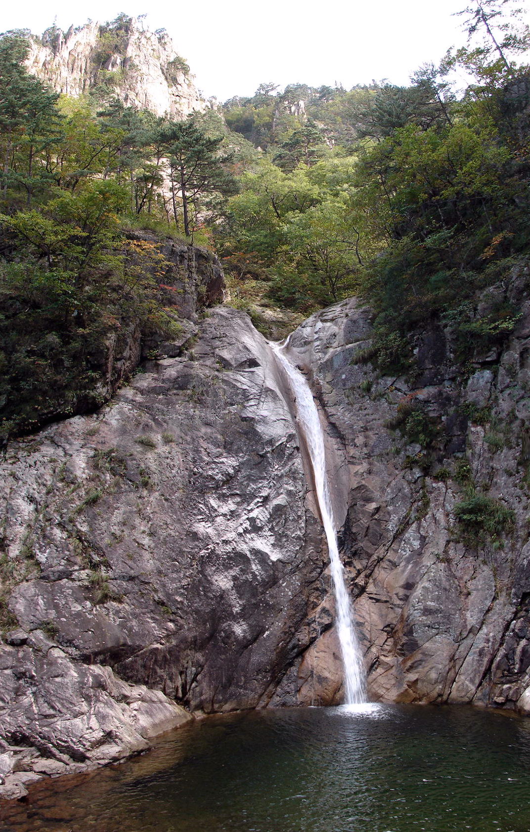 Biryongpokpo (falls) in Seoraksan National Park